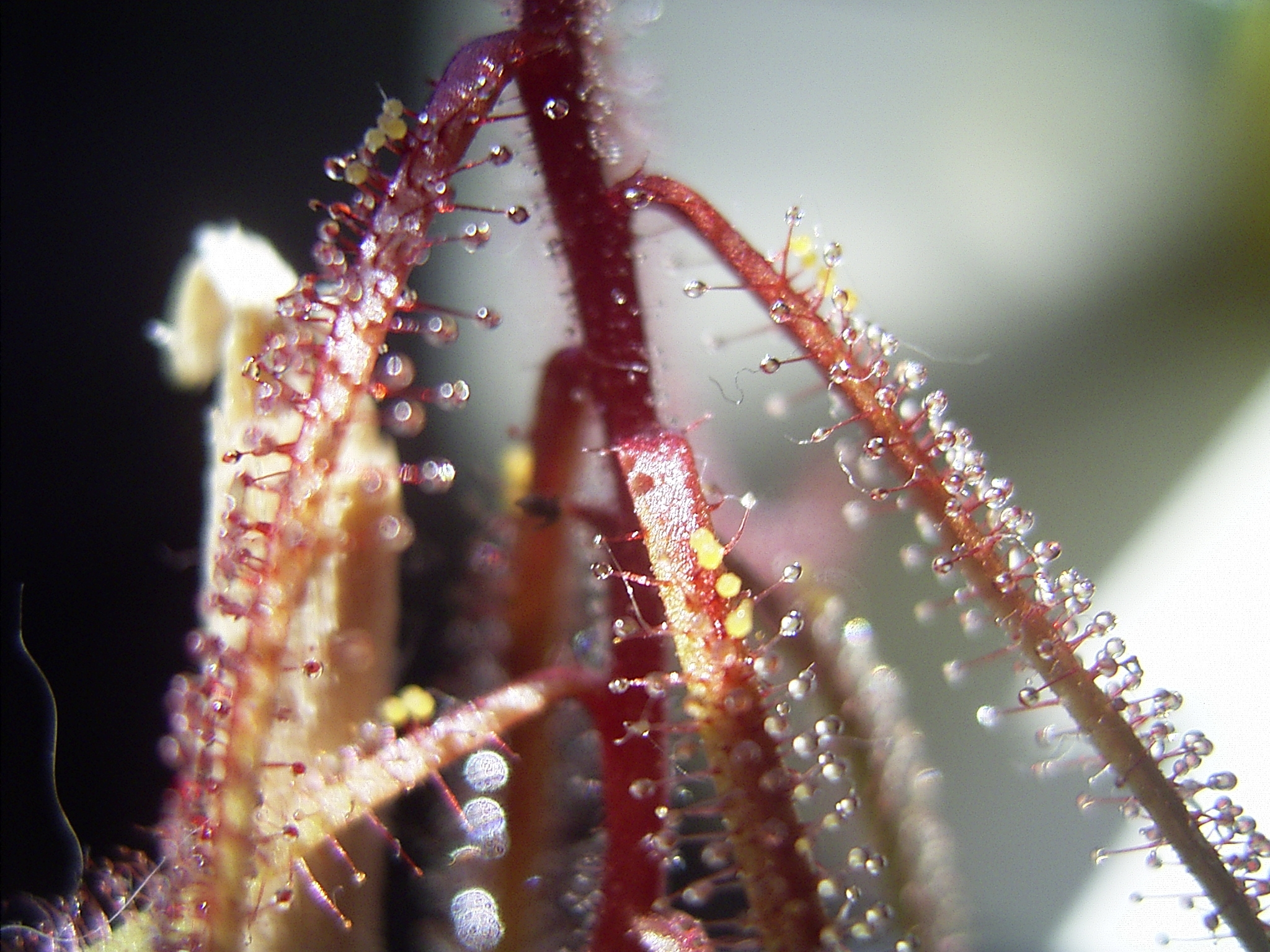 special glands